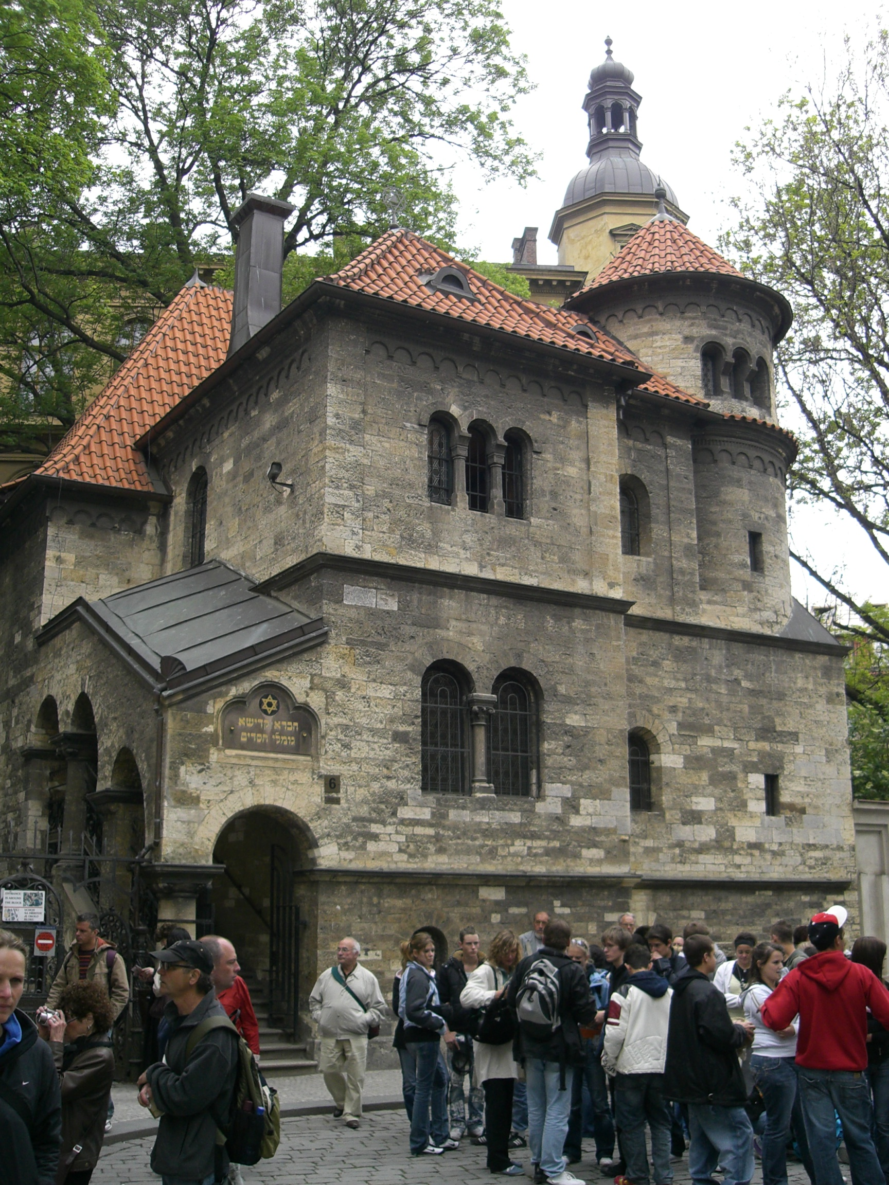 Part of Jewish museum - Ceremony hall in Prague, Czech Republic.